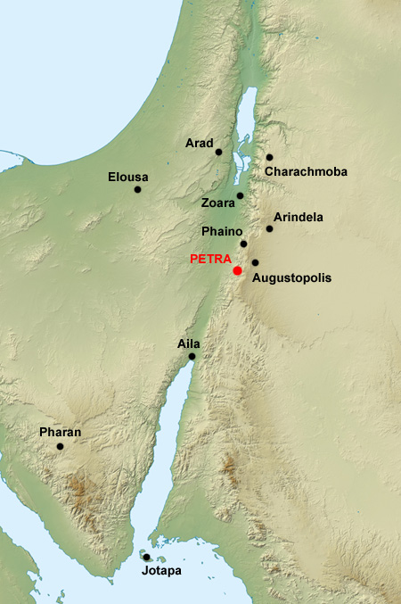 Map of ancient christian metropolitan see of Petra (IV-VII) and suffragan dioceses. Source: Piccirillo Michele, etc.